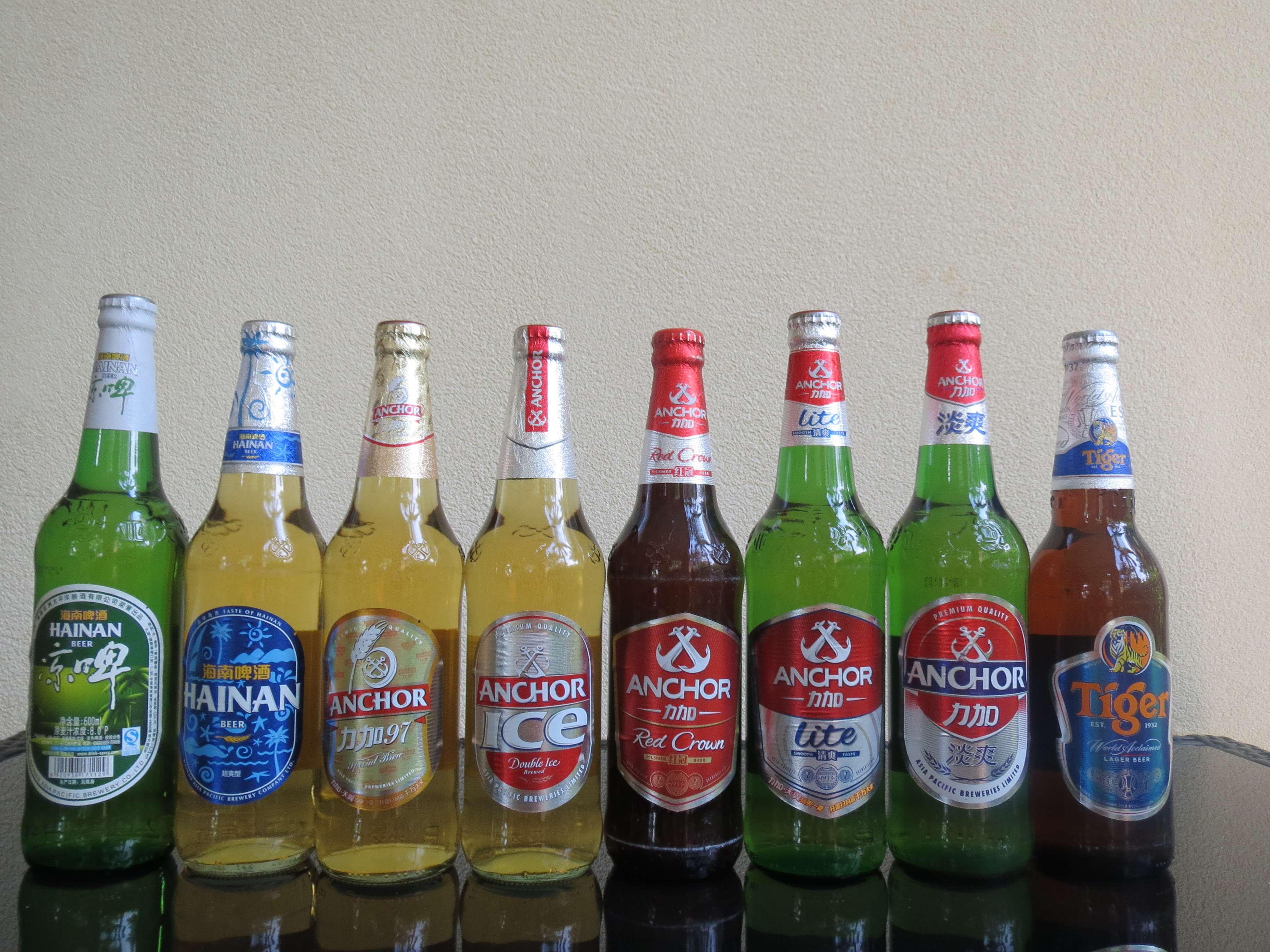 sia Pacific Brewery product range Hainan China August 2014